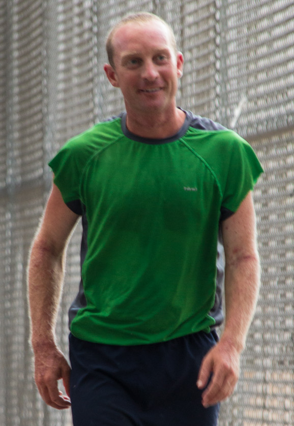 Grahak Cunningham at Day 43 at the Self-Transcendence 3100 Mile Race, July 2012, Jamaica, Queens, New York.